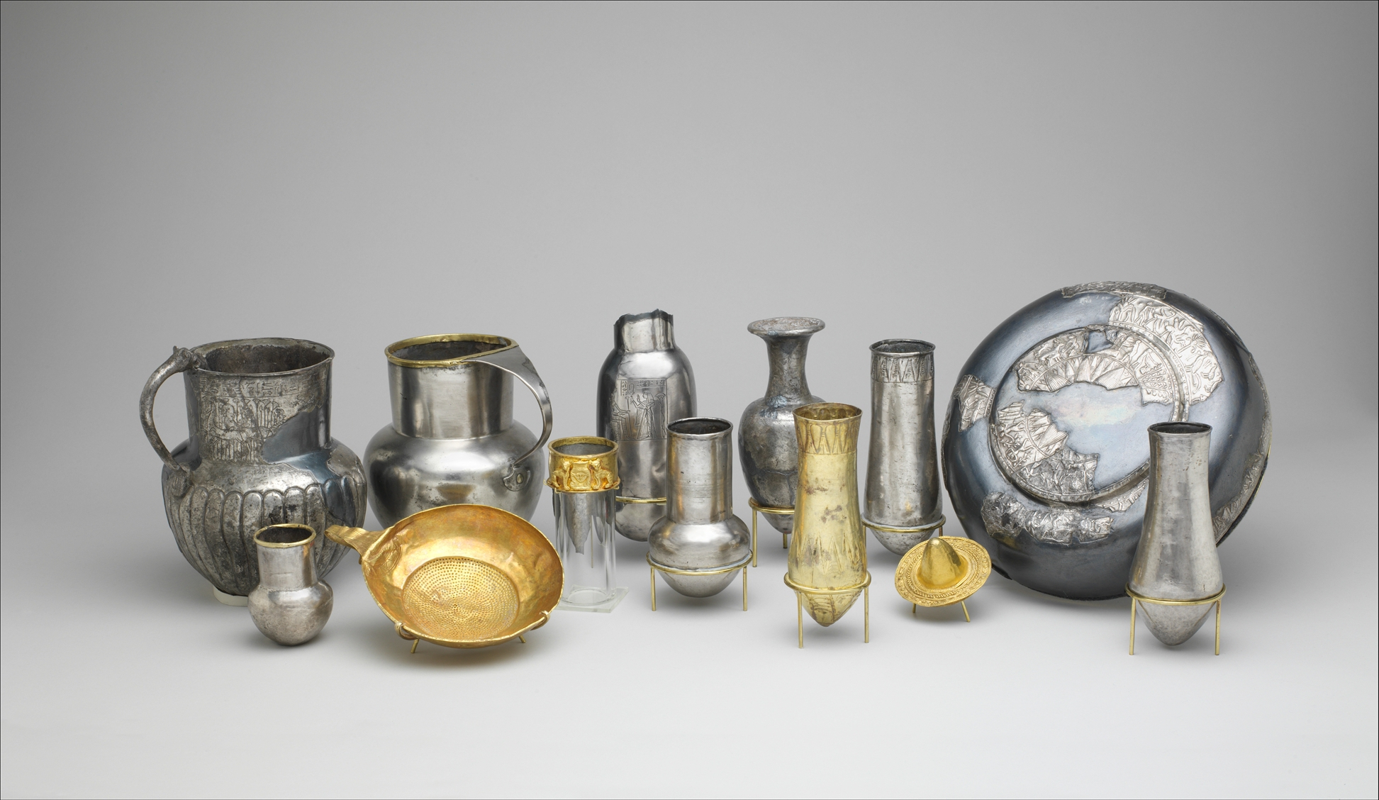 Situla, Hathor emblem, felines